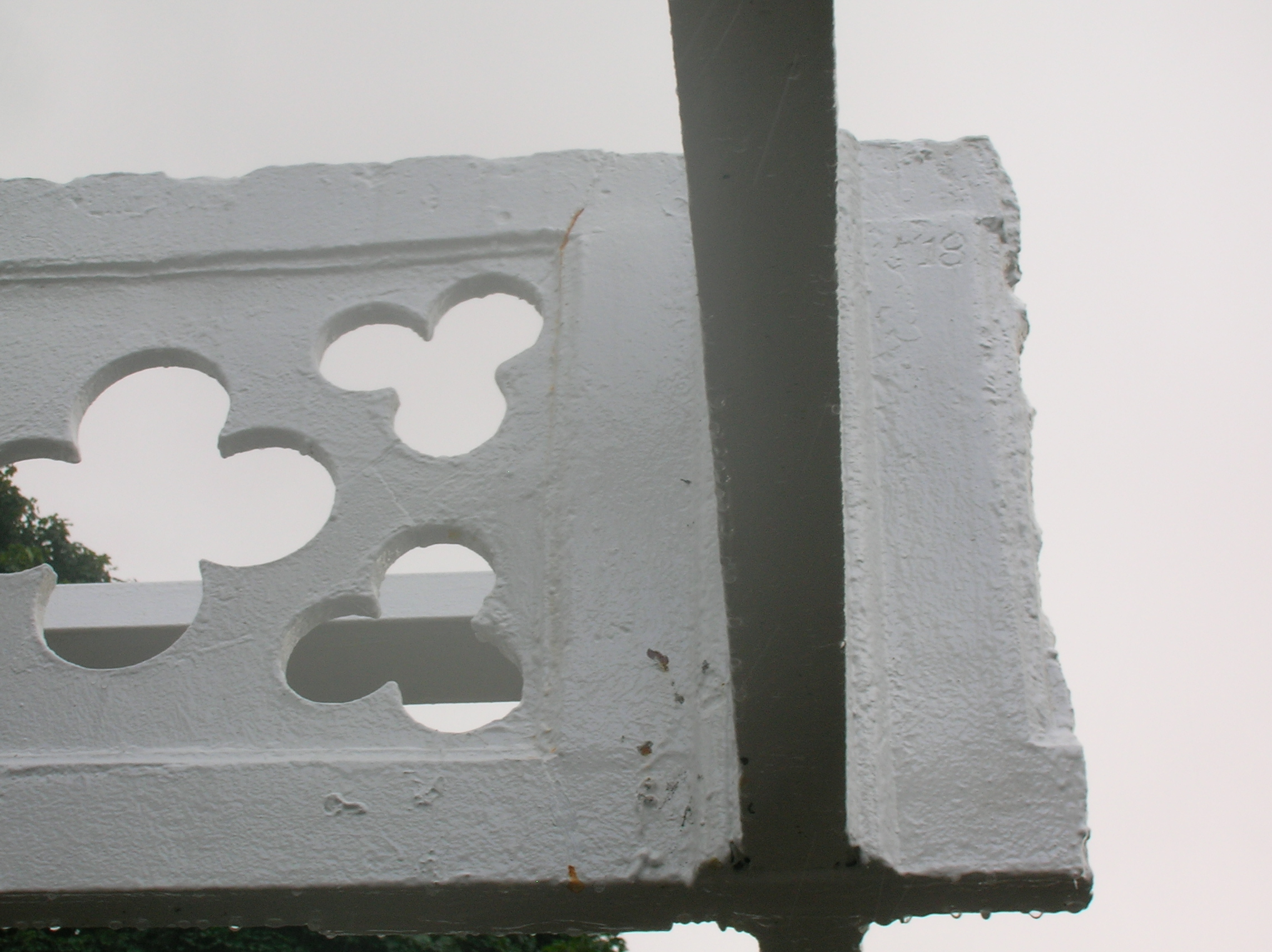 Eglinton Tournament Bridge - numbered section